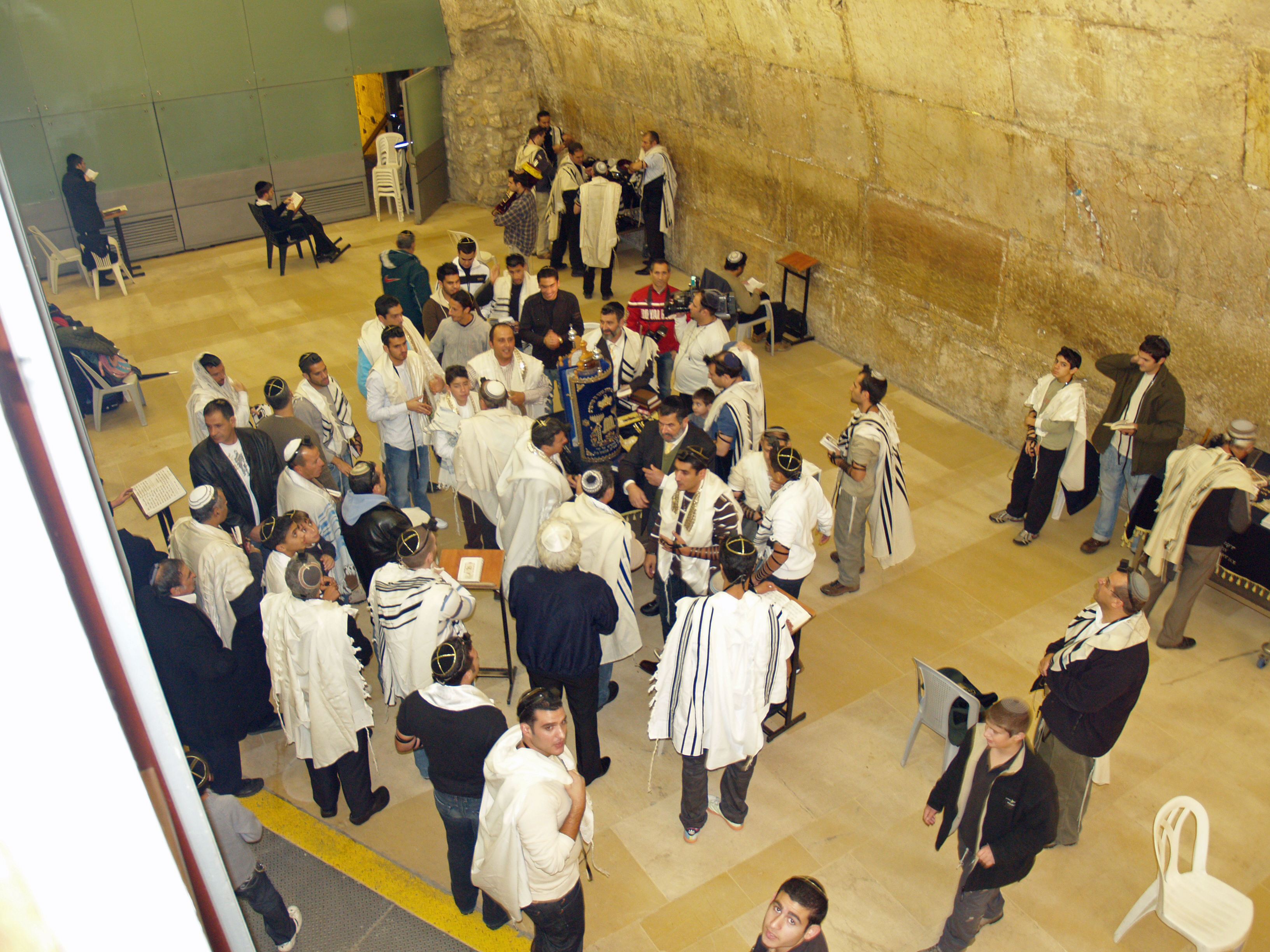 Bar Mitzvah celebrated inside the Western Wall tunnel in Jerusalem